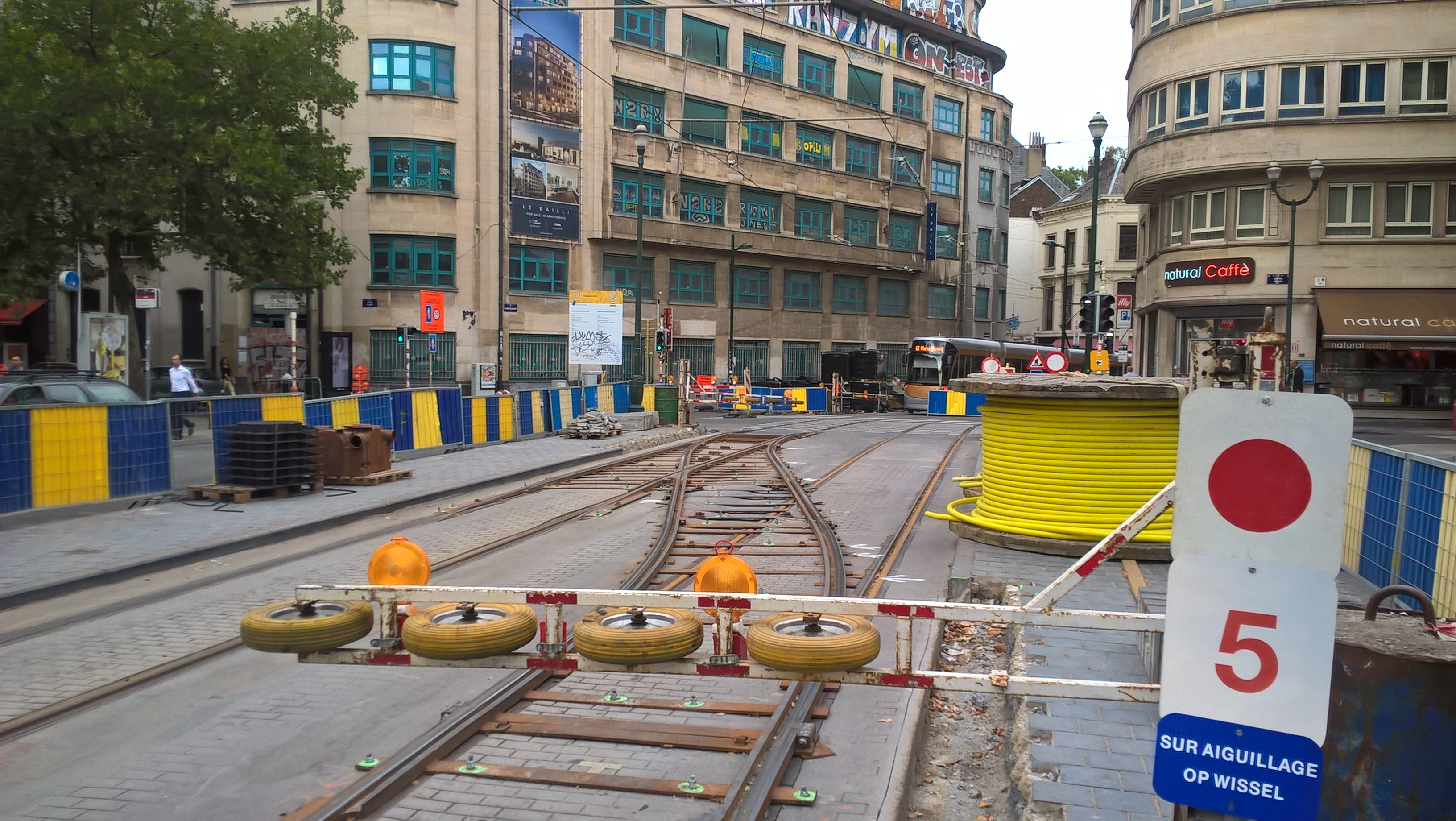 Temporary or 'Californian' points installed on tramline 81 at junction of Avenue Louise and Rue Bailli, Brussels, on 11 July 2018